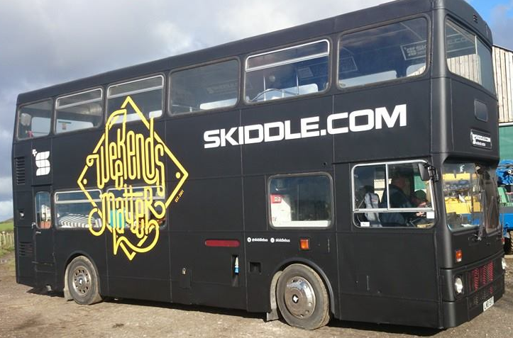 This is a photo of the Skiddle Bus. The Skiddle Bus is a double decker bus owned by primary ticket outlet and which is used at a wide variety of events around the UK. It is often used as a green room,, press area, canteen, chill out space or internet point by UK festivals.